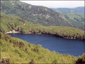 Lago Santo Parmense, photo taken from mt. Marmagna.